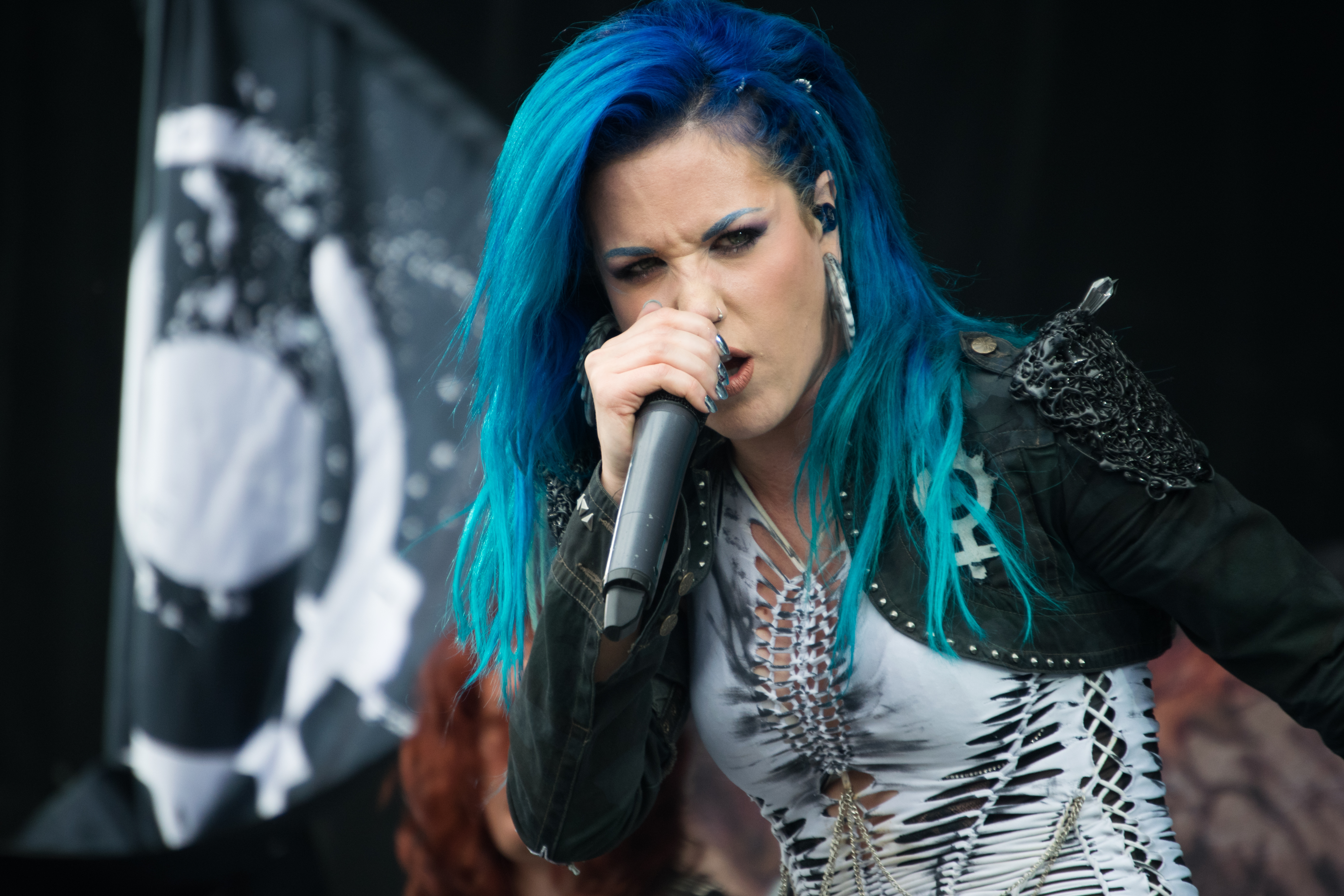 Heavy MTL Day 1 | Arch Enemy